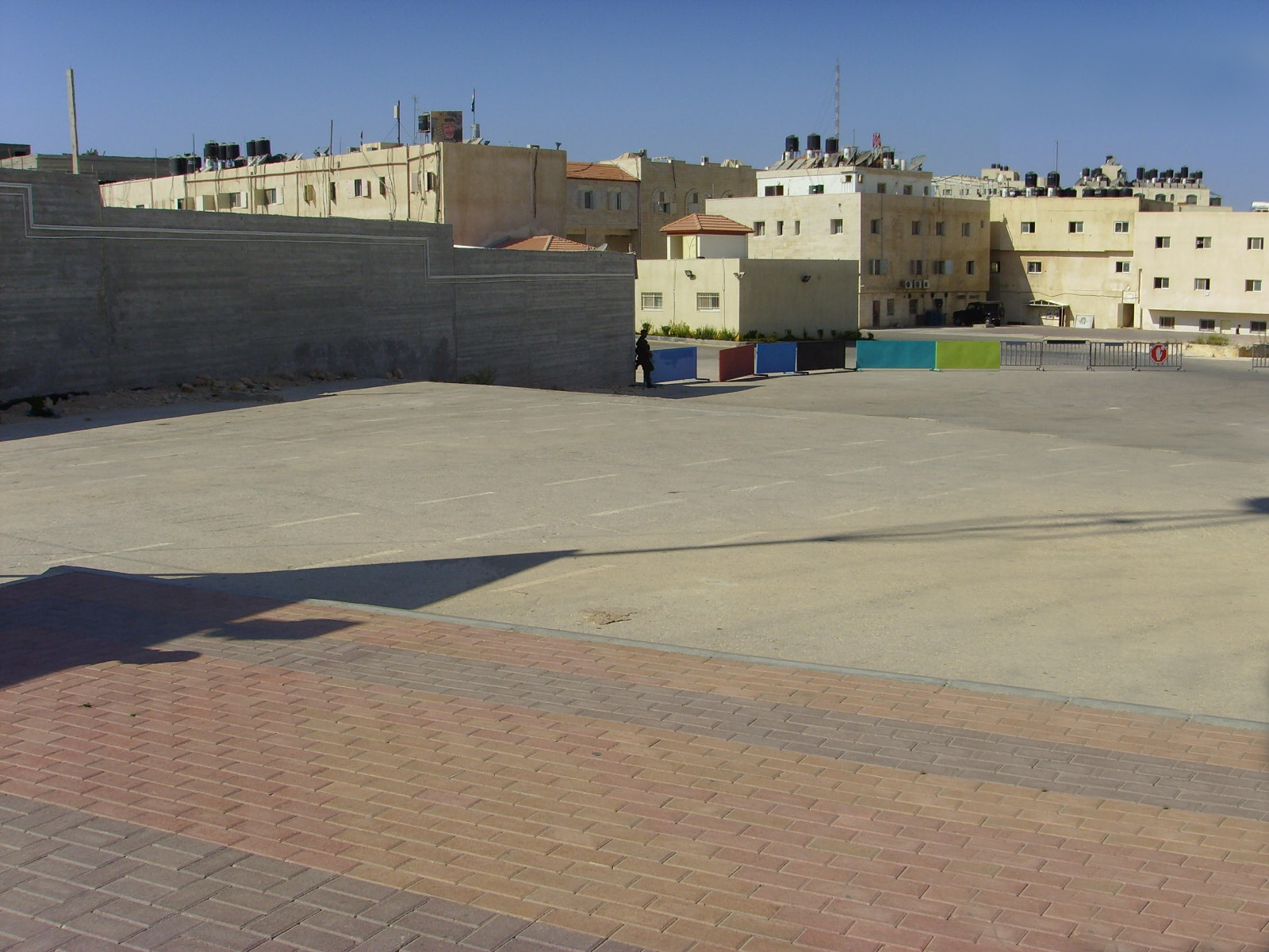 The Palace of the President of the Palestianian National Authority in Ramallah/West Bank Source: self-made Date: October 2007 Author: Lily